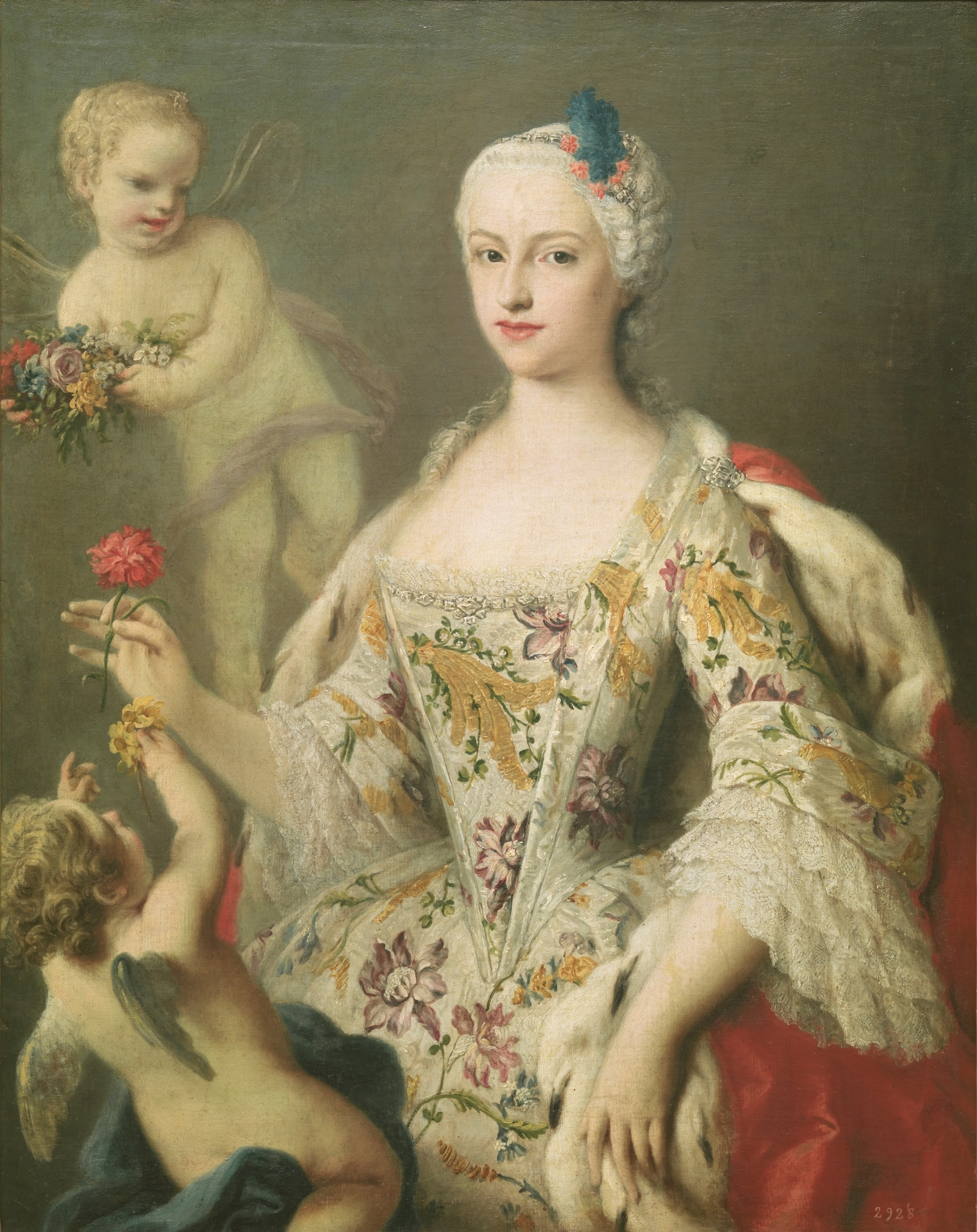 Maria Antonietta of Spain (1729-1785), infanta of Spain, daughter of King Philip V of Spain and of his wife, Elizabeth Farnese, and Queen consort of Sardinia as wife of King Victor Amadeus III of Sardinia.